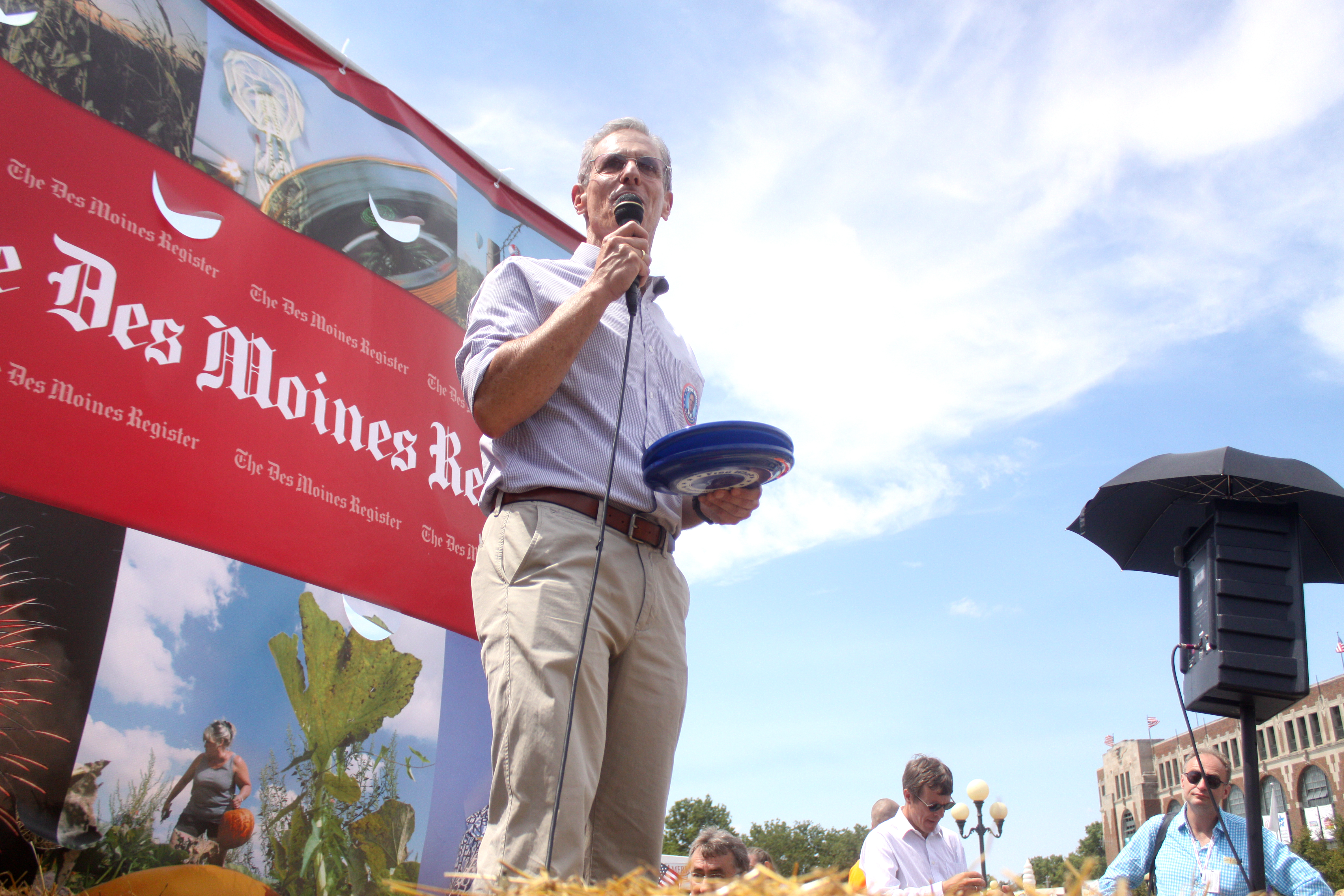 Fred Karger at the Iowa State Fair in Des Moines, Iowa.